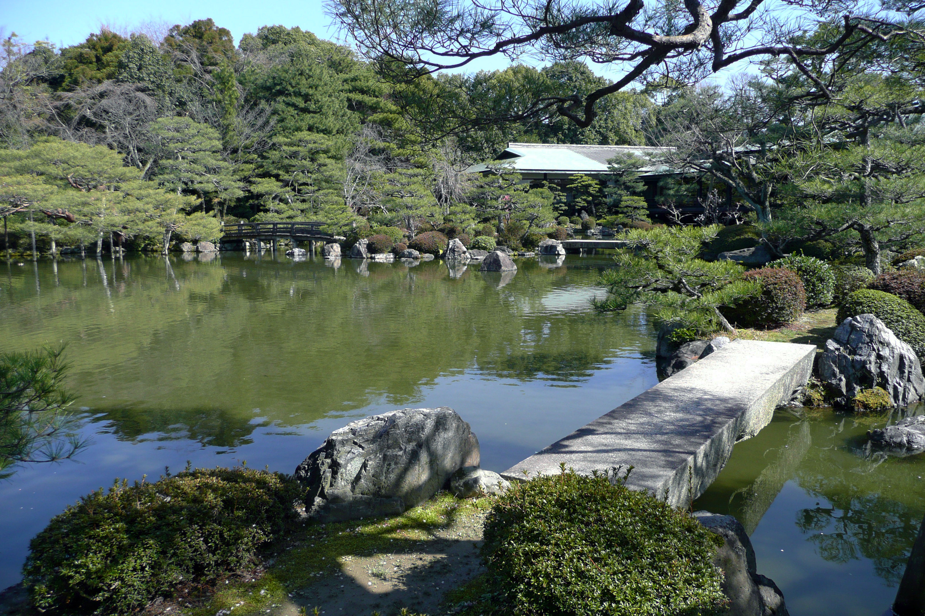 Heian-jingu shinen, Kyoto, Kyoto prefecture, Japan